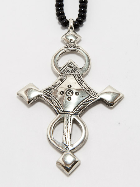 Tuareg cross Mano Dayak